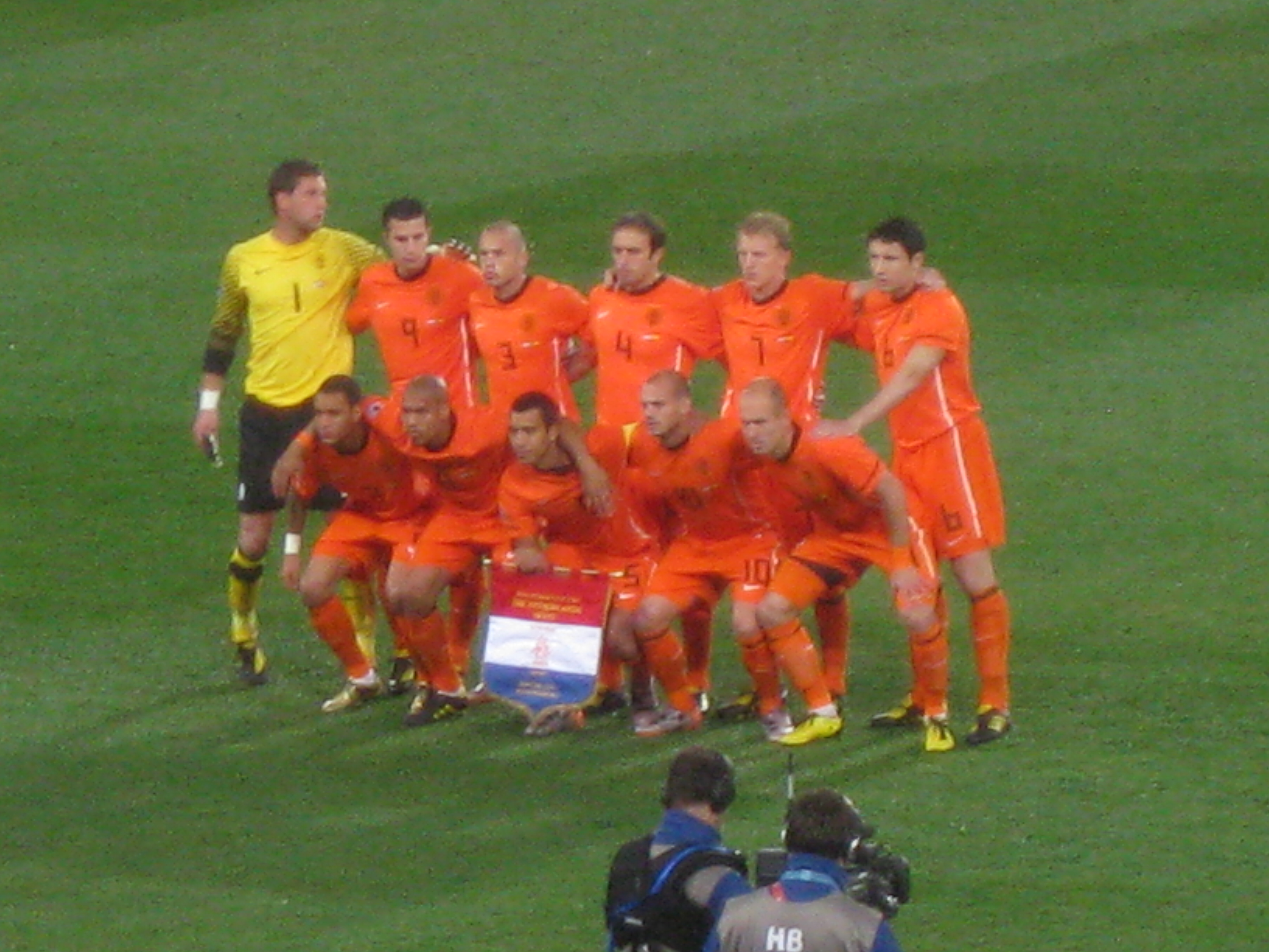 Netherlands team before the FIFA World Cup 2010 Final game versus Spain, 11 July 2010, Soccer City, Johannesburg